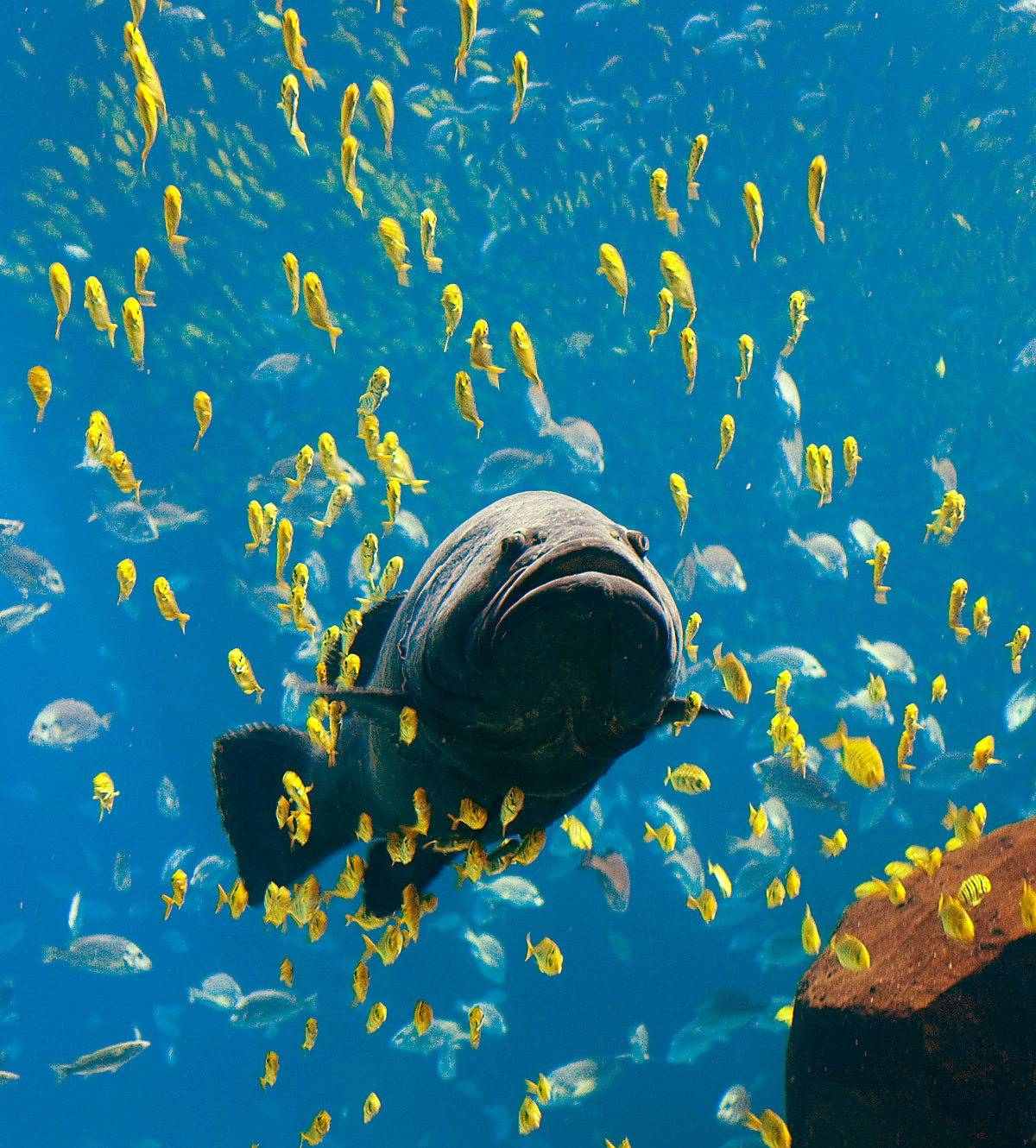 A Giant grouper (Epinephelus lanceolatus) taken at the Georgia Aquarium on January 23 2006 by myself with a Canon 5D and 24-105mm f/4L IS.